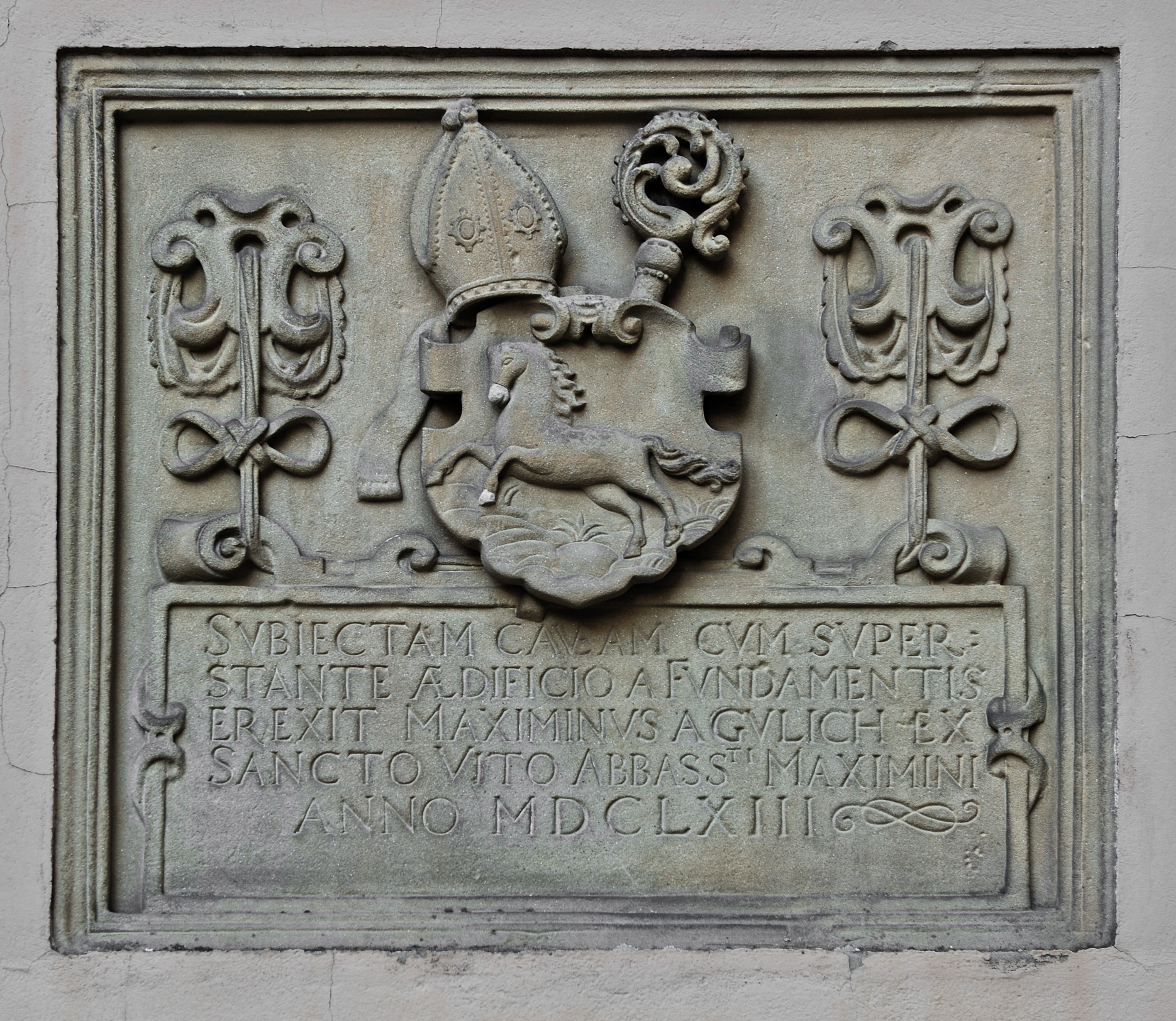 Luxembourg City, hôtel St Maximin: stone plaque on the western lateral facade, showing the coat of arms of the abbot Gulich of the St Maximin abbey in Trier..